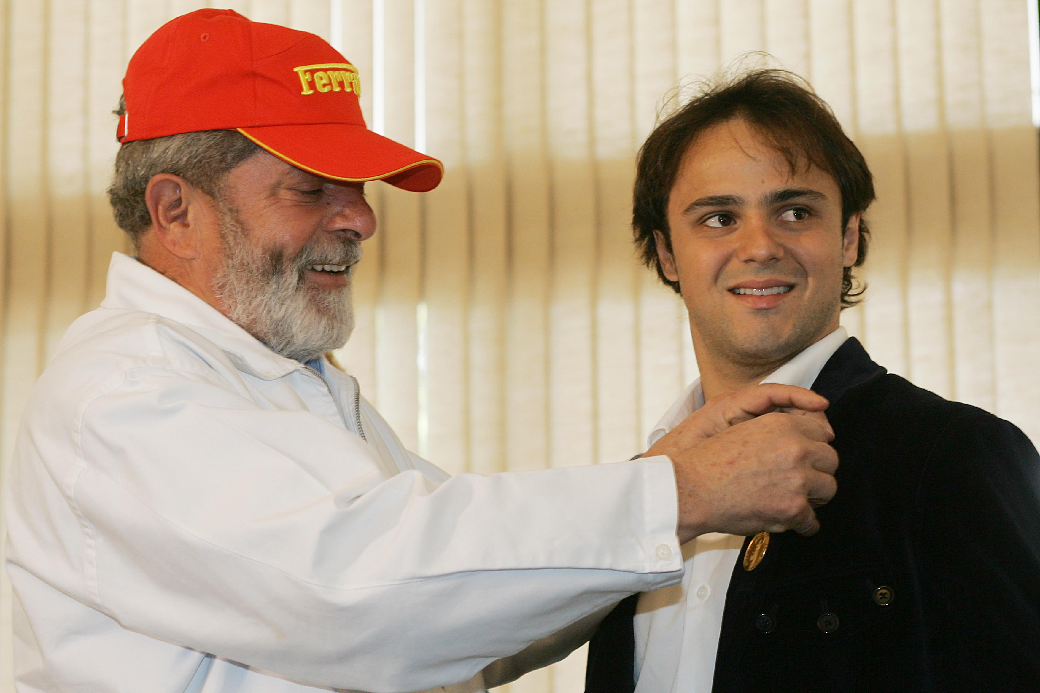 Felipe Massa received Medalha do Mérito Desportivo (Medal of the Sport Merit) from Luiz Inácio Lula da Silva, the president of Brazil.